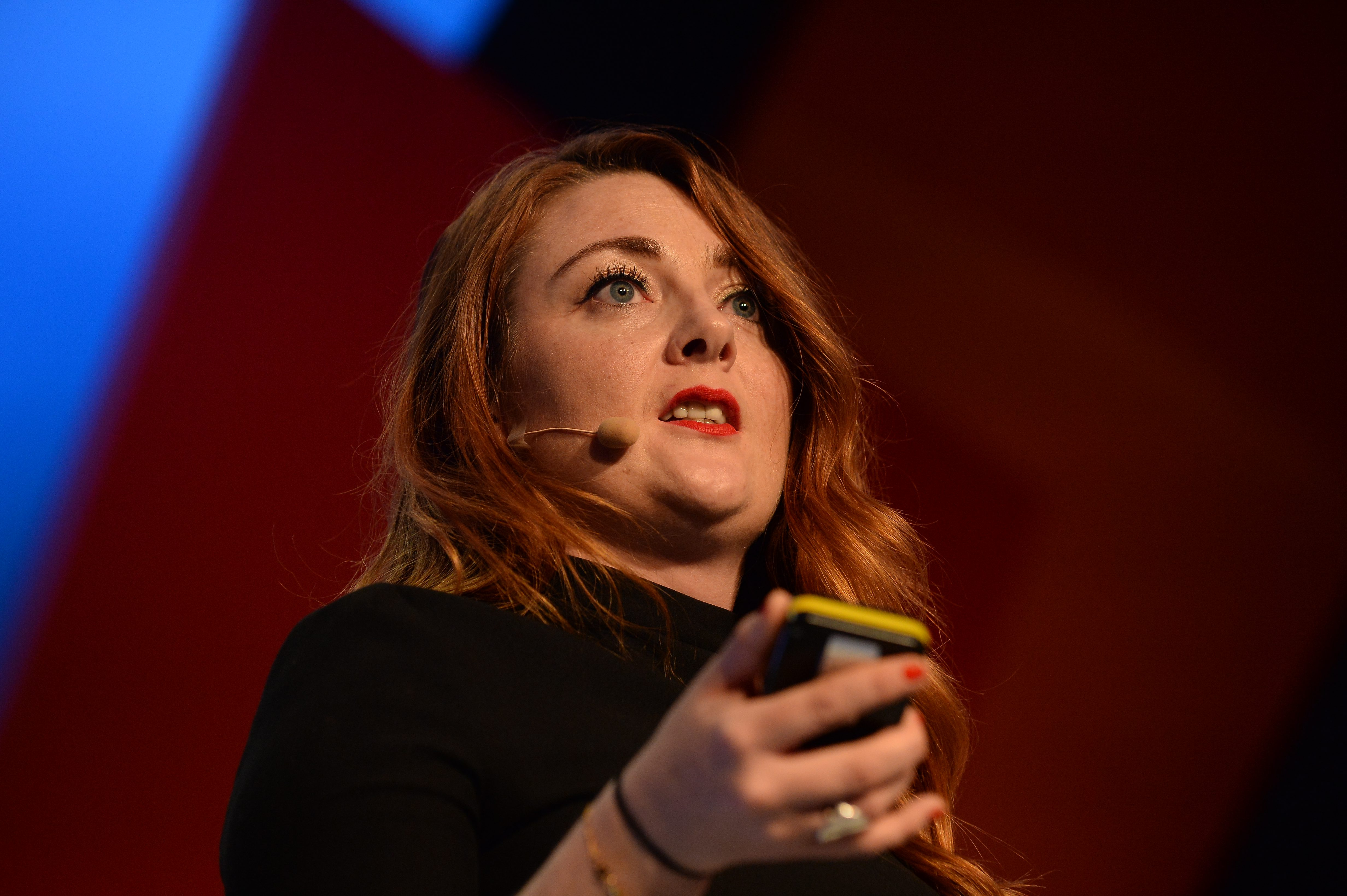 In five years, Web Summit has grown from 400 attendees to over 42,000 from more than 134 countries. It’s been called “the best technology conference on the planet”. But we just think it’s different. And that difference works for our attendees, ranging from Fortune 500 companies to the world’s most exciting startups.